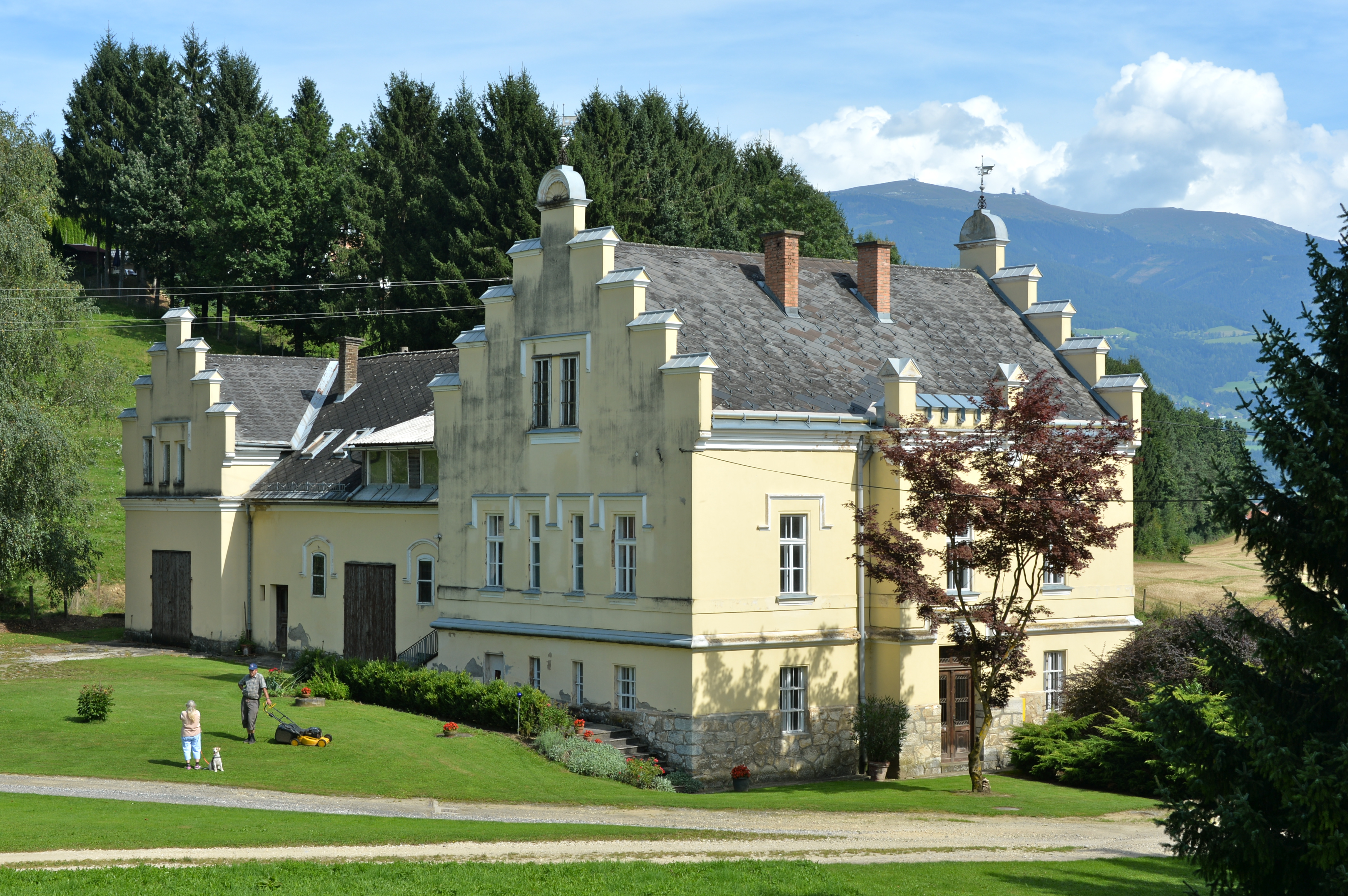 Estate building of castle Weissenau at Reinfelsdorf #20, municipality Wolfsberg, district Wolfsberg, Carinthia / Austria / EU